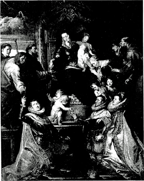 "The Distribution of the Rosary" (also called "The Virgin of the Rosary"), anonymous copy of a painting by Rubens destroyed in the Bombardment of Brussels in 1695. - Oil on panel - Dimensions: 67.3 × 51.4 cm. Rubens' original painting was painted for the Spanish Chapel of the old Dominican church in Brussels, ca. 1618.